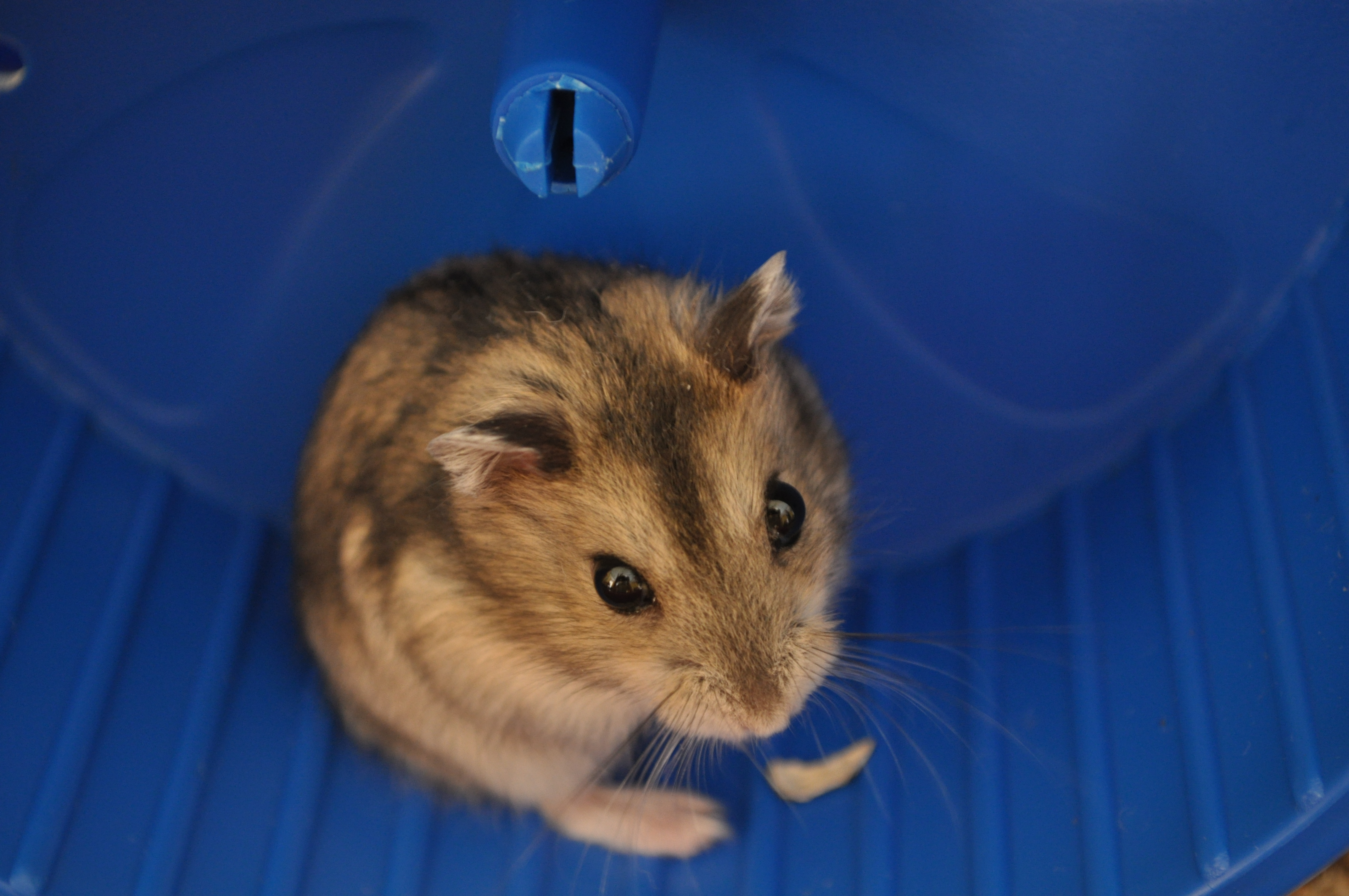 Just a shot of a dwarf hamster, previous photo wasn't up to snuff.